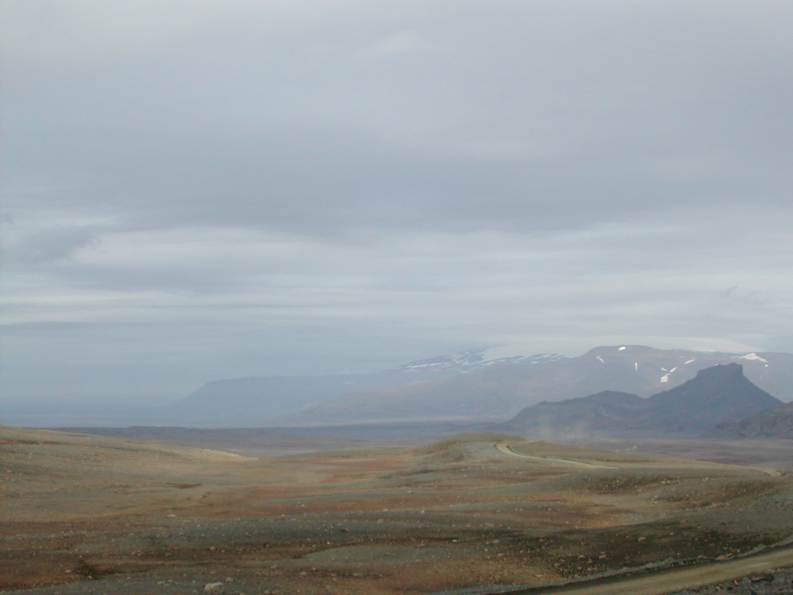 Kaldidalur track, Iceland. The picture was taken from the Kaldidalur track. Image size: 1600 x 1200, from a digital camera (Nikon Coolpix 775).